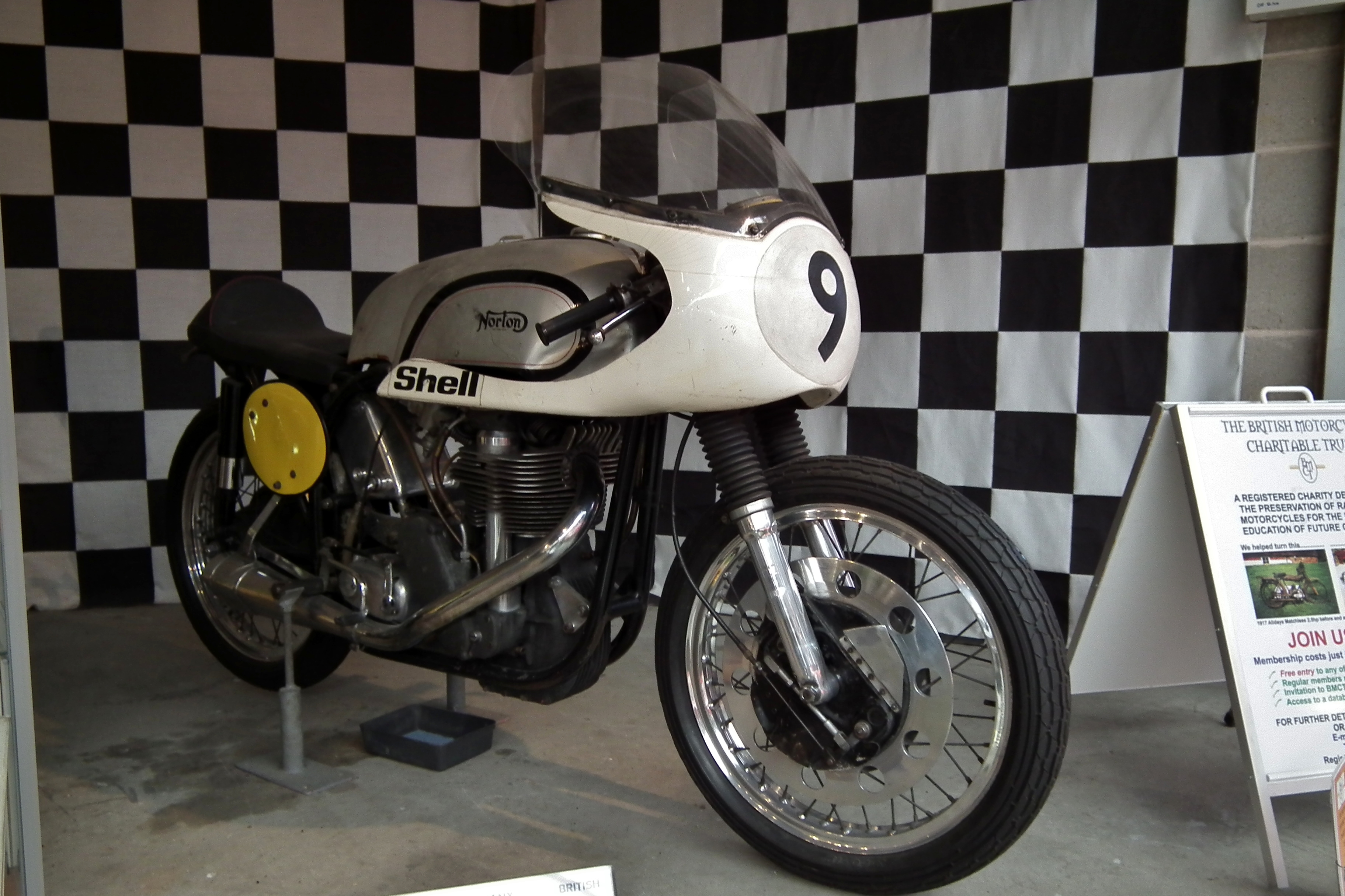 1960 Norton 30M Manx motorcycle. Taken at the National Motor Museum in Beaulieu, Hampshire, England.